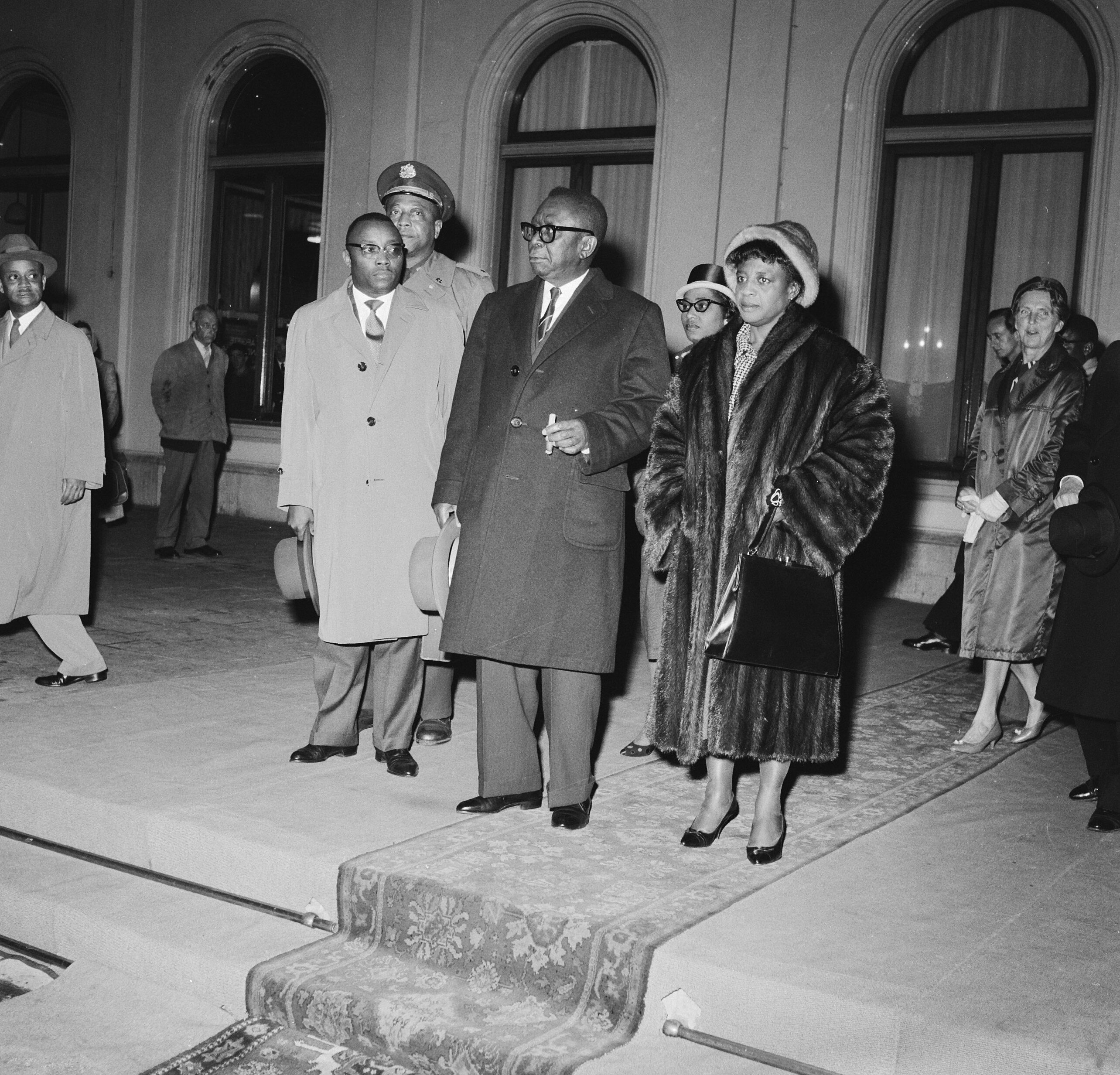 President William Tubman & his wife Antoinette in the Netherlands at The Hague train station, October 1960